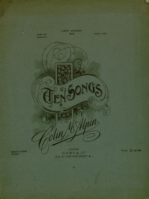 The design is the cover of a collection of songs with music by Colin McAlpin (1870-1943), a notable composer of operas and an organist. Published by Cary & Co. The design is of interest because it is in a style characteristic of the period. A Harry Ransom Center Image, reproduced from the Edgar Allan Poe Collection by permission of Harry Ransom Center, The University of Texas at Austin, USA.